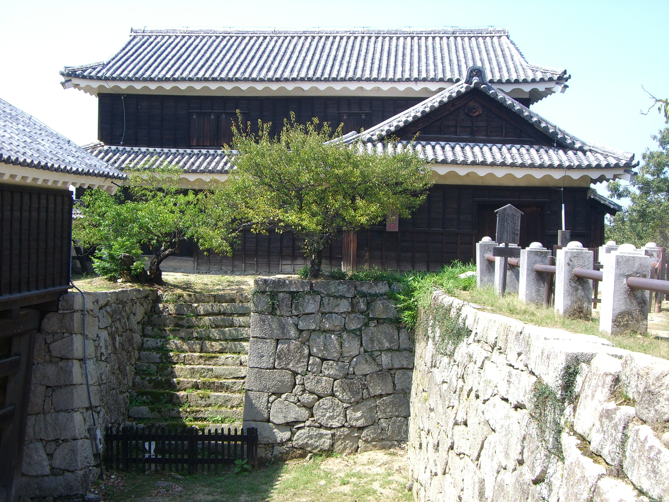 "Inui-Yagura(Northwest-Turret)" of Matsuyama Castle, Ehime, Japan(Important Cultural Property of Japan): This is a two-storied structure standing at the Northwest corner of Honmaru (main enclosure) of Matsuyama castle. Inui is an old Japanese word meaning northwest. This structure, together with adjacent gate and turret, constitutes a defense line for enemies attacking from rear.(Matsuyama, Ehime JAPAN)